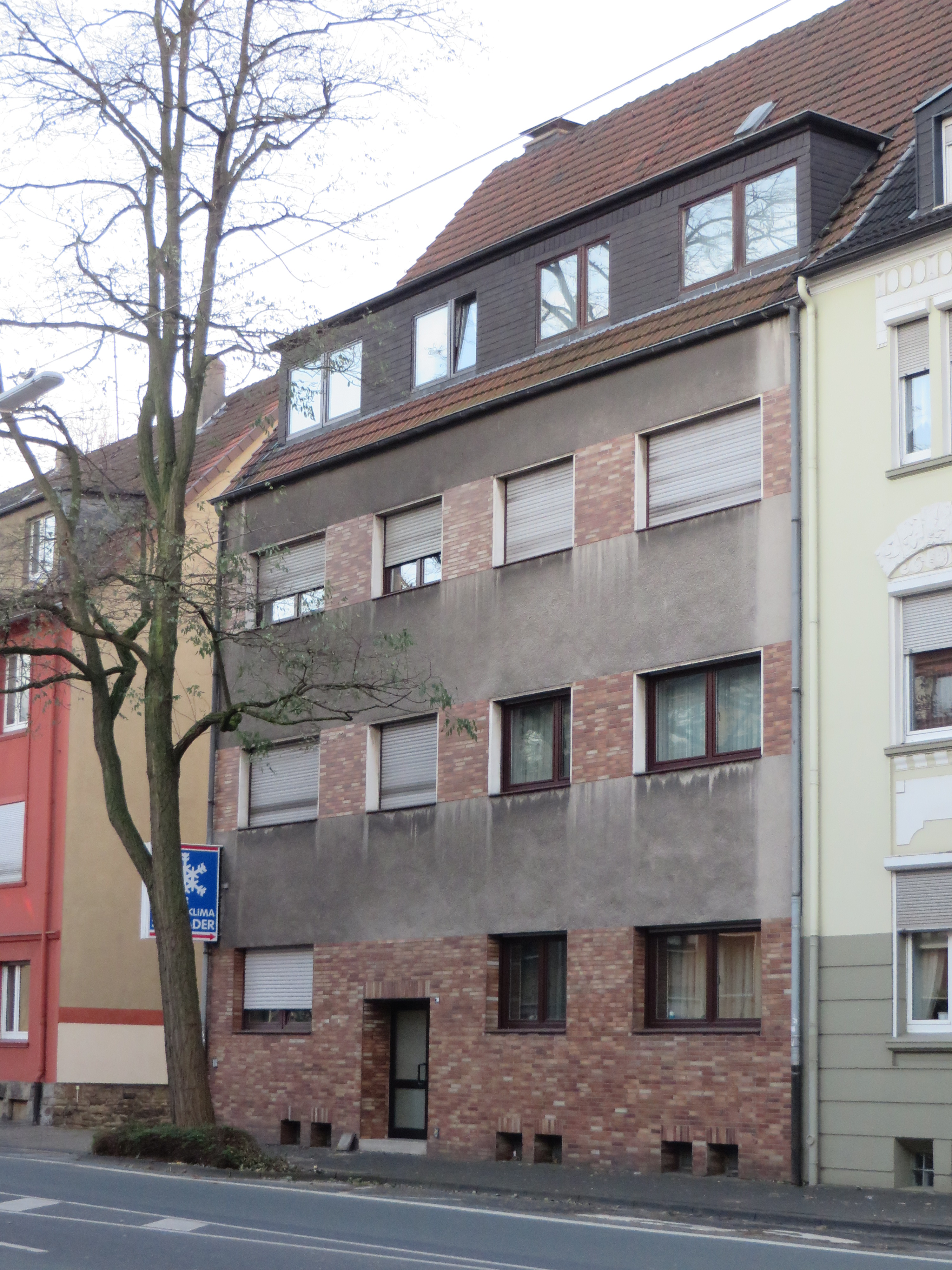 House Ardeystraße 70 in Witten, GermanyEsperanto: Domo Ardeystraße 70 en Witten, Germanio